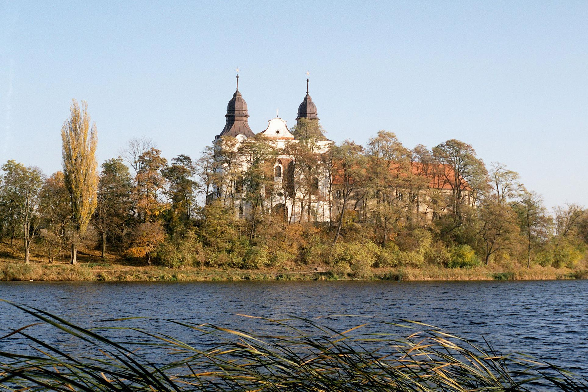 Mogilno, Poland, former benedictine abbey from west.